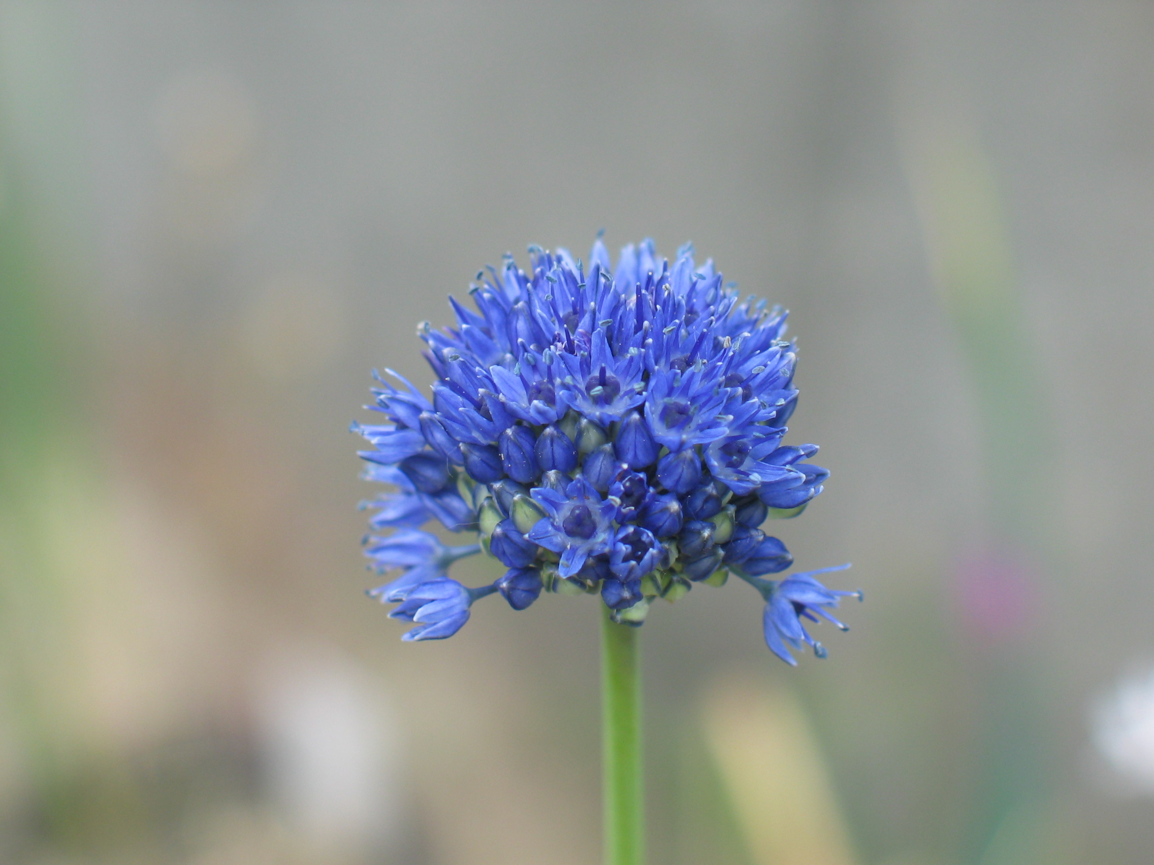 Foto of Allium caeruleum, Botanischer Garten Osnabrück